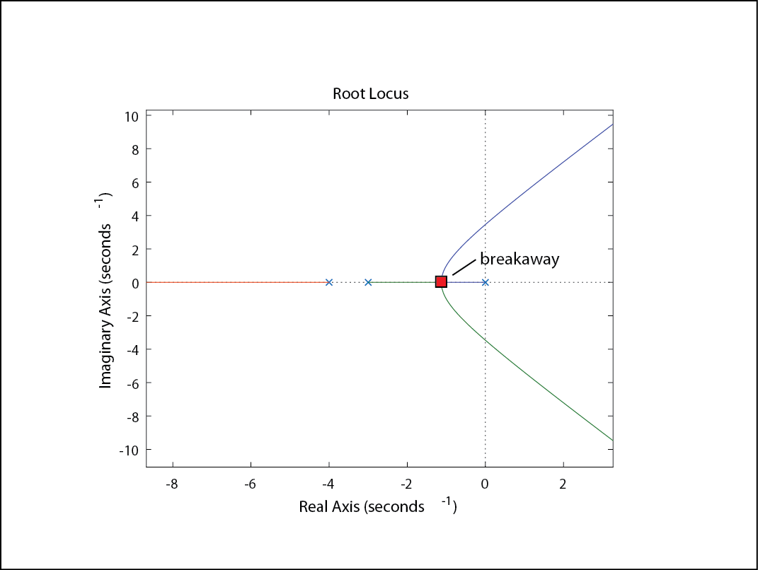 Root locus with the breakway point identified.